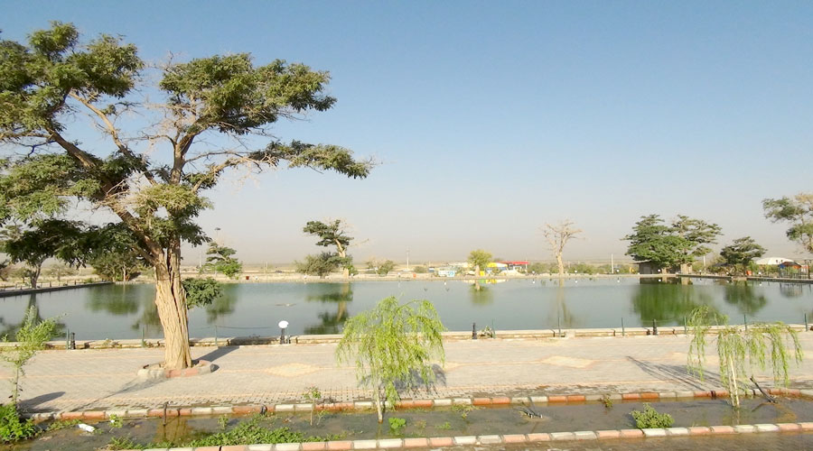 پارک بزرگ ایرینجی ممقان